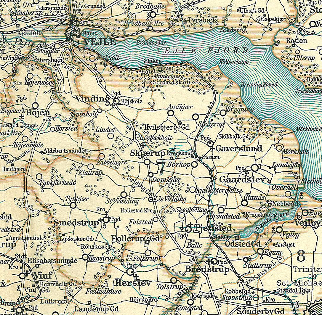 Map of Holmans Herred in Vejle County in Denmark